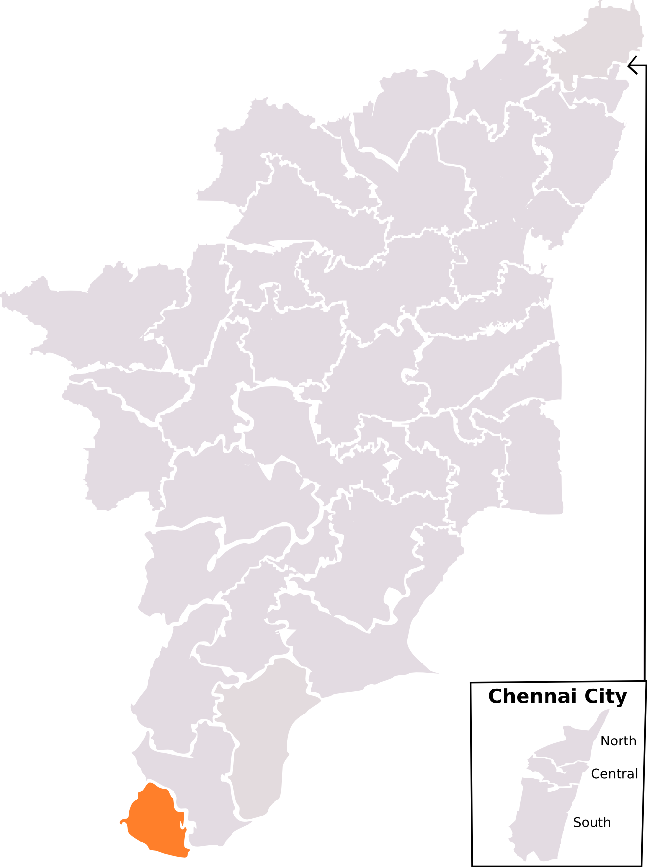 Lok Sabha Election map for Tamil Nadu. Map is drawn using Inkscape and is based on ECI website.